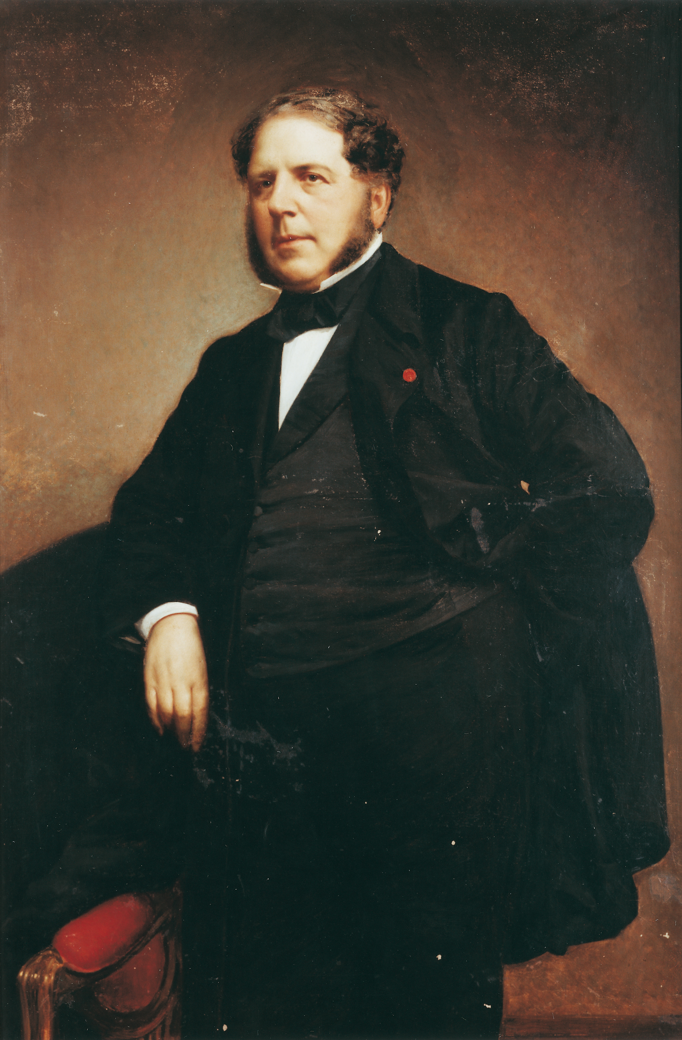 Charles Christofle (1805-1863), French industrialist